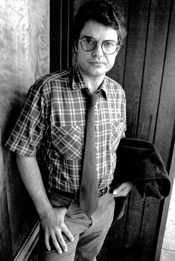 Bassist Charlie Haden at KJAZ Radio, Alameda CA 1981.